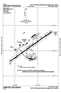 FAA airport diagram for Southwest Florida International Airport (RSW) in Lee County, Florida, United States.